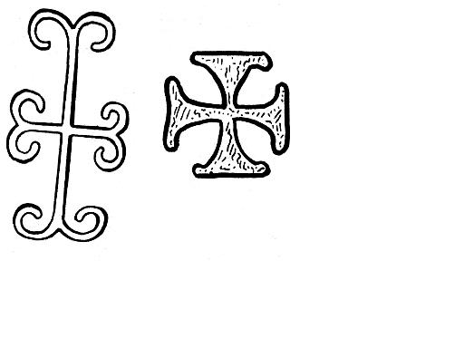 Avarian old crosses,one cross Malta-type, other Teuton-type